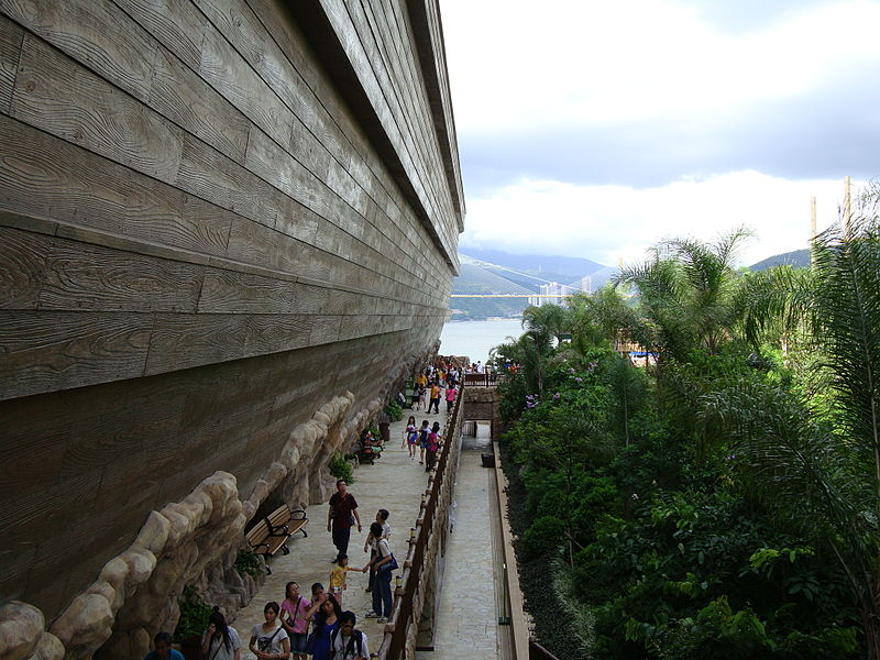 Right Side View of Noah's Ark, Hong Kong, (Transferred this image from Tamil Wikipedia)